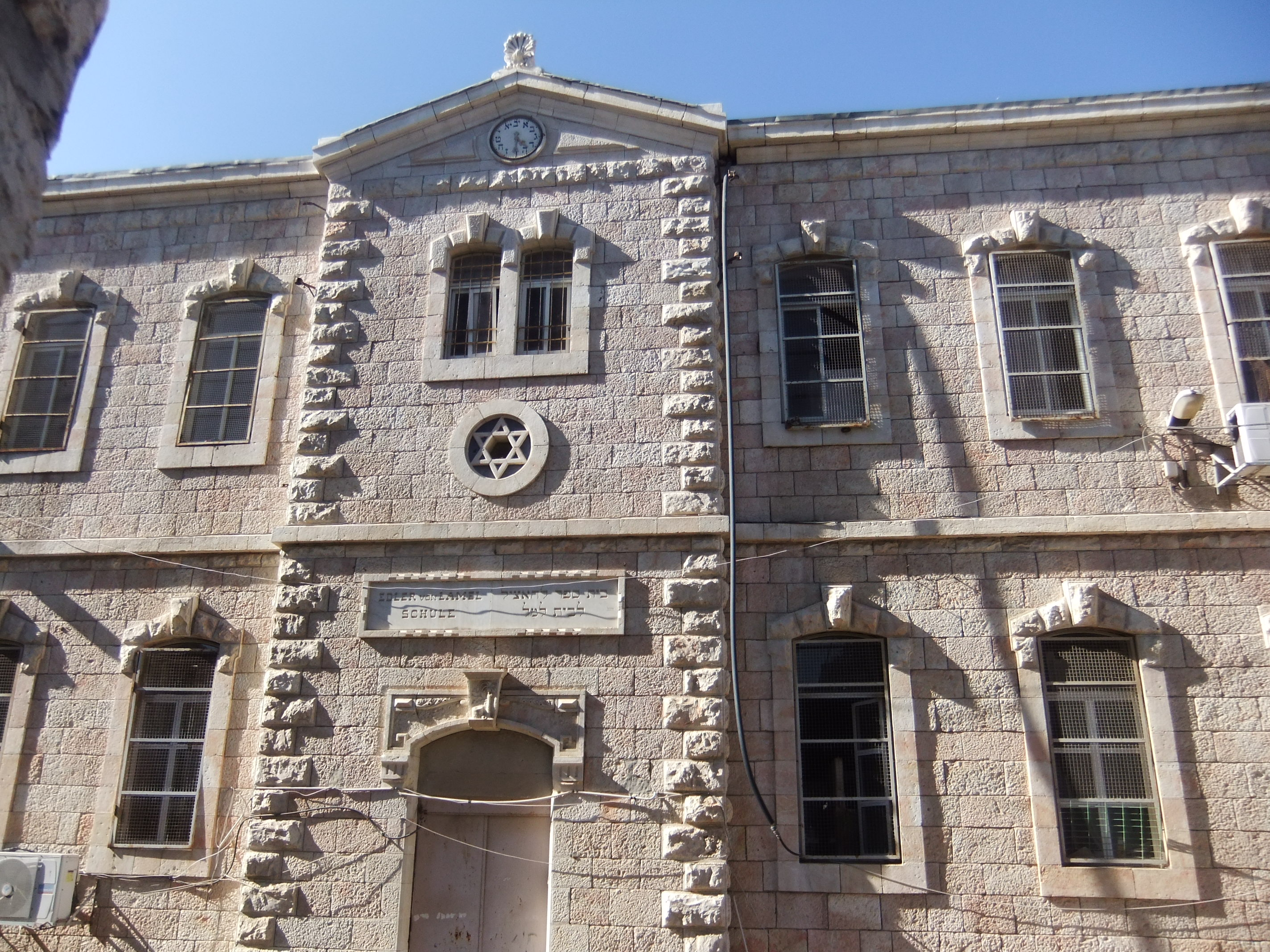 Lemel School in Jerusalem, Yeshayahu street (corner of David Yellin street)